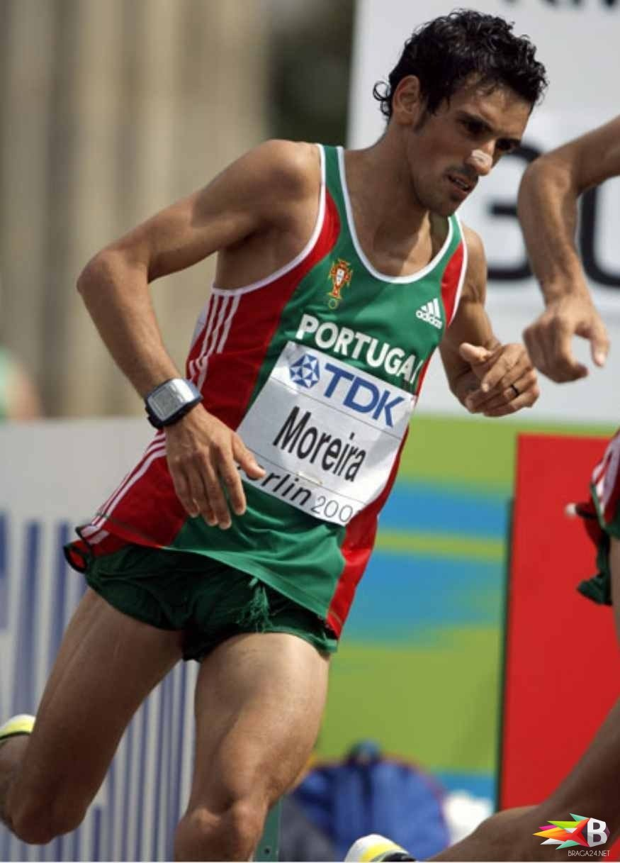 world athletics championship Berlin 2009